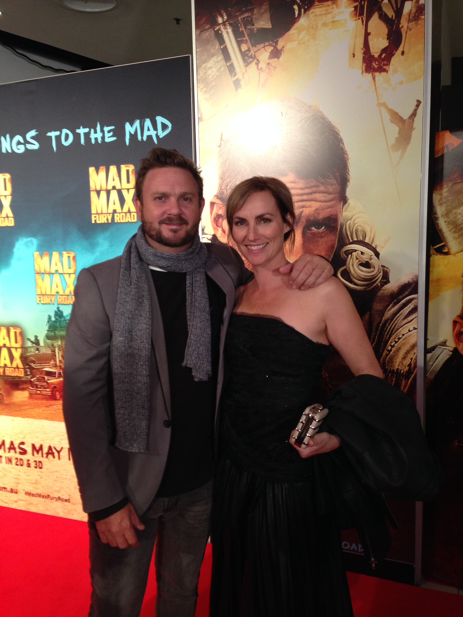 Cameron Ambridge, Mad Max Premiere Sydney, 13 May 2015